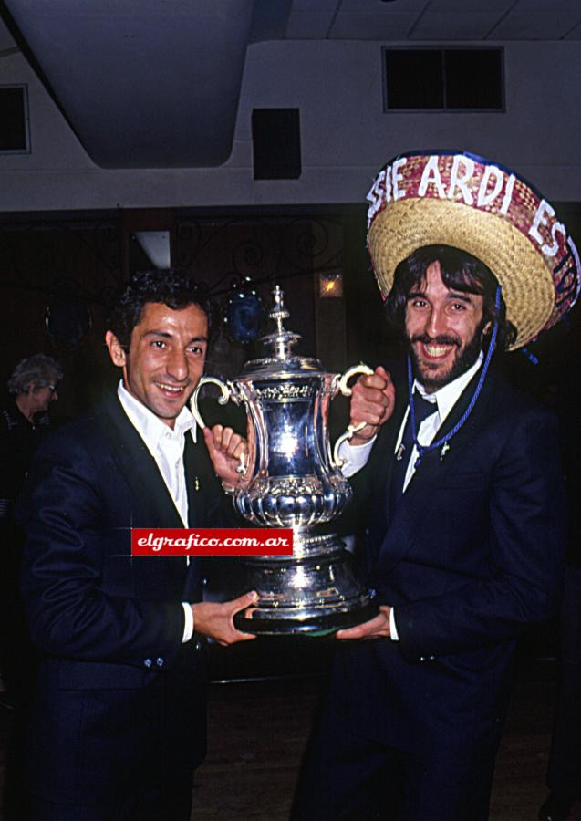 Osvaldo Ardiles (left) and Ricardo Villa holding the FA Cup trophy won with Tottenham Hotspur.